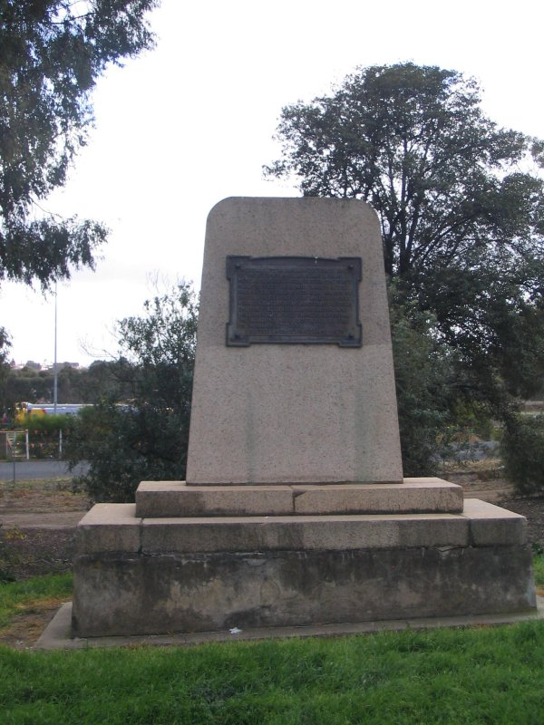 Monument at the Corner of North and West Terraces, Adelaide referring to Colonel William Light